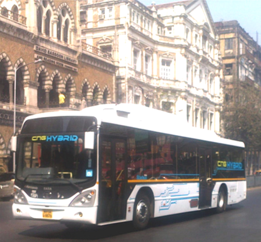 Best bus CNG hybrid mumbai bombay